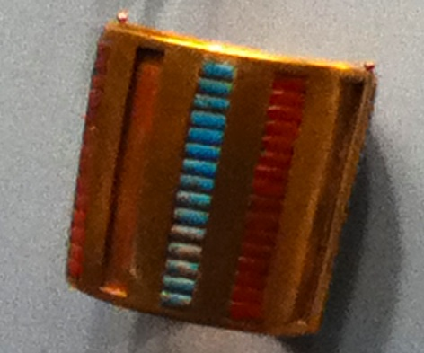 Dynasty 18, reign of Thurmose III (ca. 1479-1425 B.C.). Gold, carnelian, glass (originally of turquoise and blue color). From the tomb of the three minor wives of Thutmose III in the Wady Gabbanat el-Qurud, Thebes. This hinged ornament is made of burnished gold inlaid with carnelian and glass that was originally turquoise and dark blue, but has faded. It is inscribed on the inner surface with the cartouches and epithets of Thutmose III. It was worn on the wrist or upper arm with the king's name close to the woman's skin.